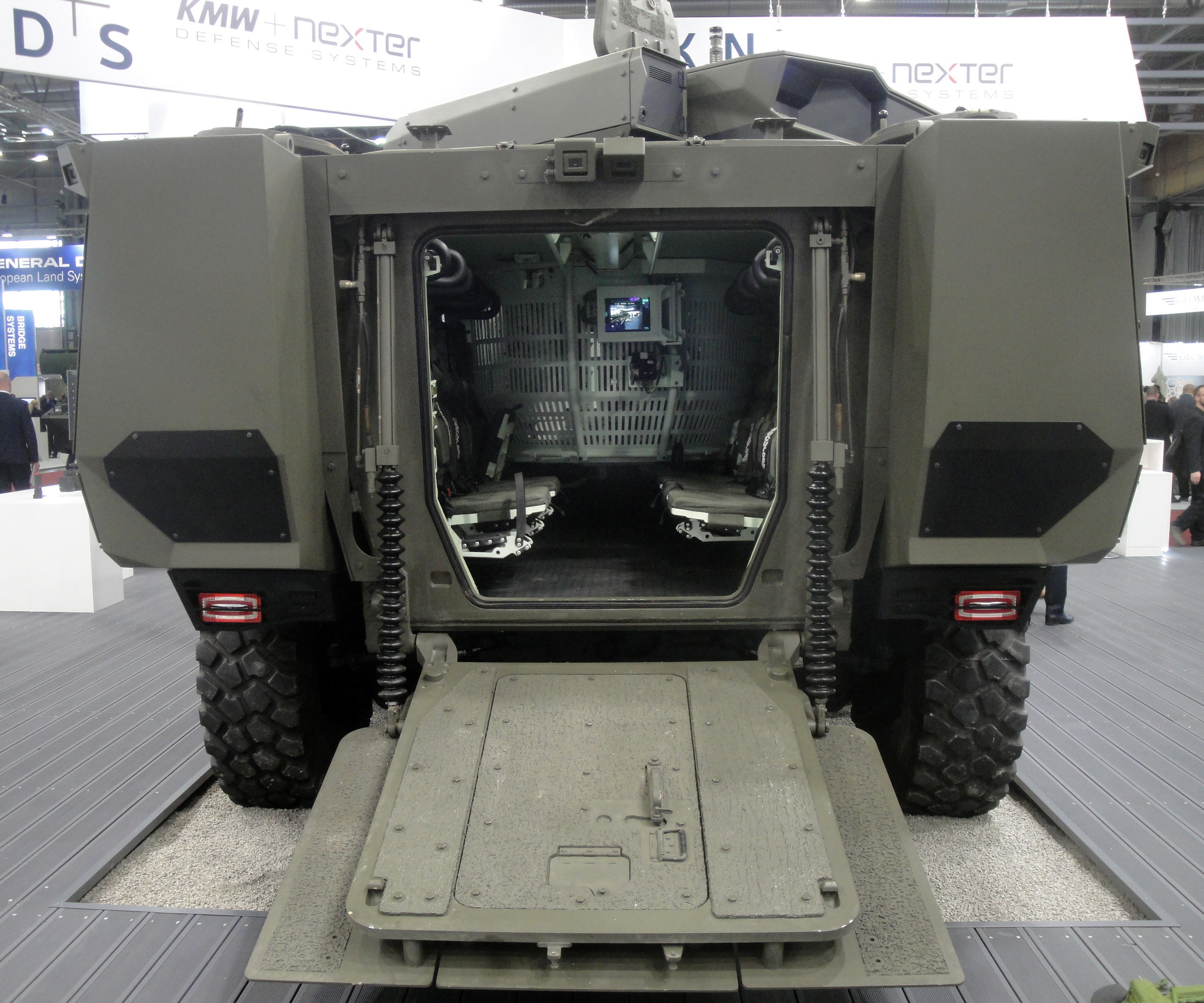 VBCI, IDET/PYROS/ISET 2019, Brno